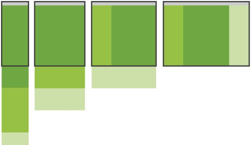 Column drop